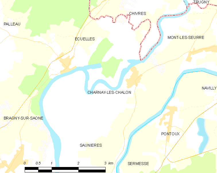 Map of French municipality